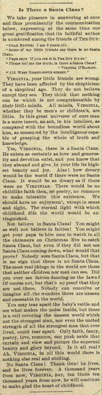 Editorial entitled "Yes, Virginia, there is a Santa Claus"